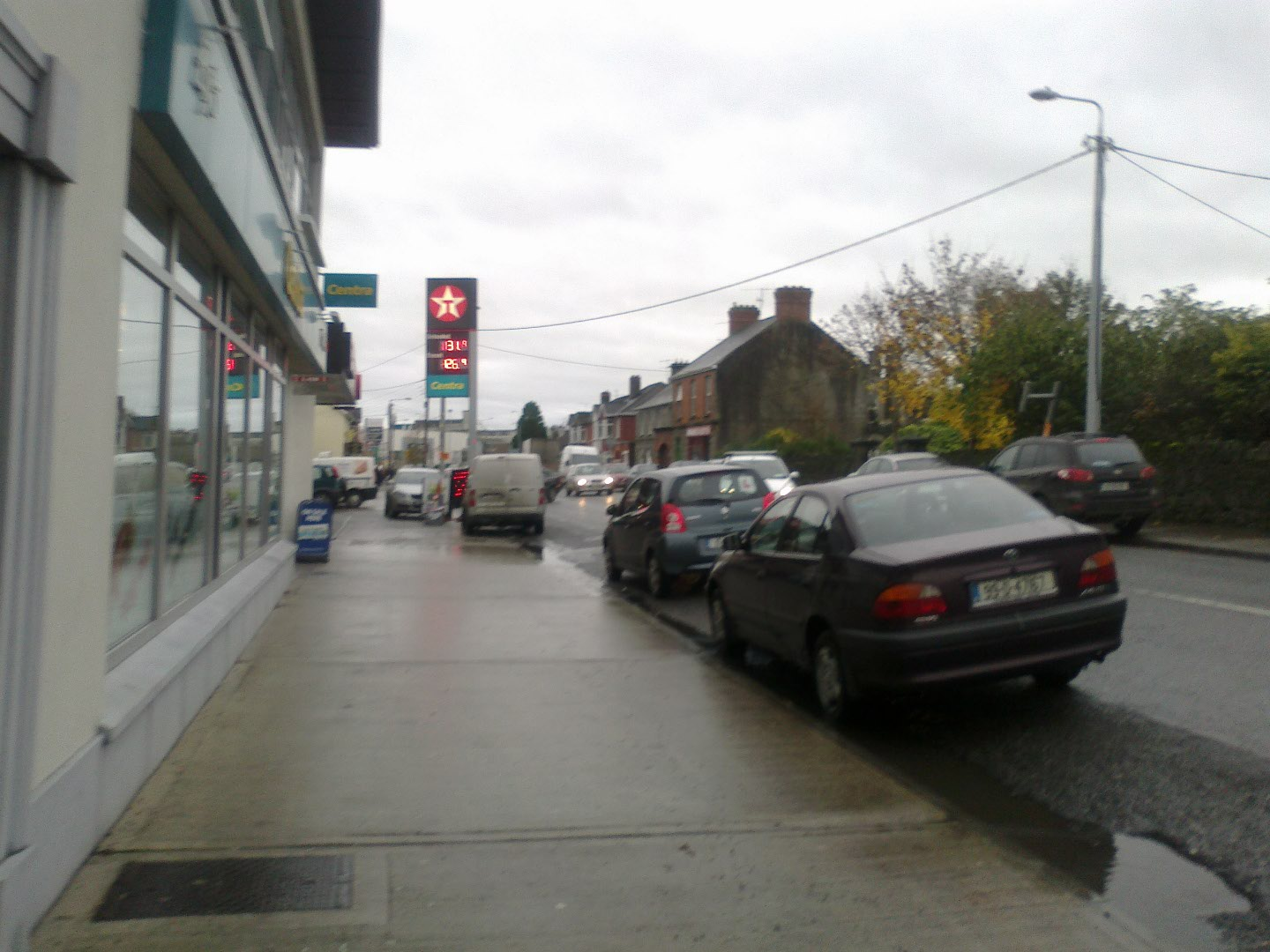 Slievnamon Road Thurles